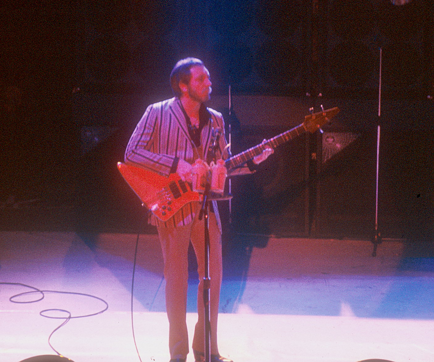 THE WHO - Manchester Apollo - 1981 (Bass guitarist John Entwistle of the Who